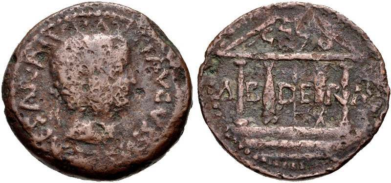 Bronze coin with head of Tiberius on the obverse and the temple of Melquarth/Hercules with two columns shaped like tuna fish on the reverse. Legend reads ABDERA in Latin and 'BDRT in Punic